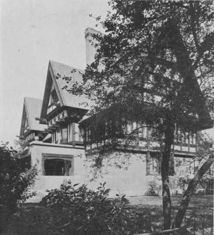 View of the Nathan G. Moore House (1895) in Oak Park, Illinois prior to the 1922 fire that destroyed much of the house. The residence was subsequently rebuilt in a new design. Found in the Chicago Architectural Sketch Club Collection of the Ryerson and Burnham Archives.